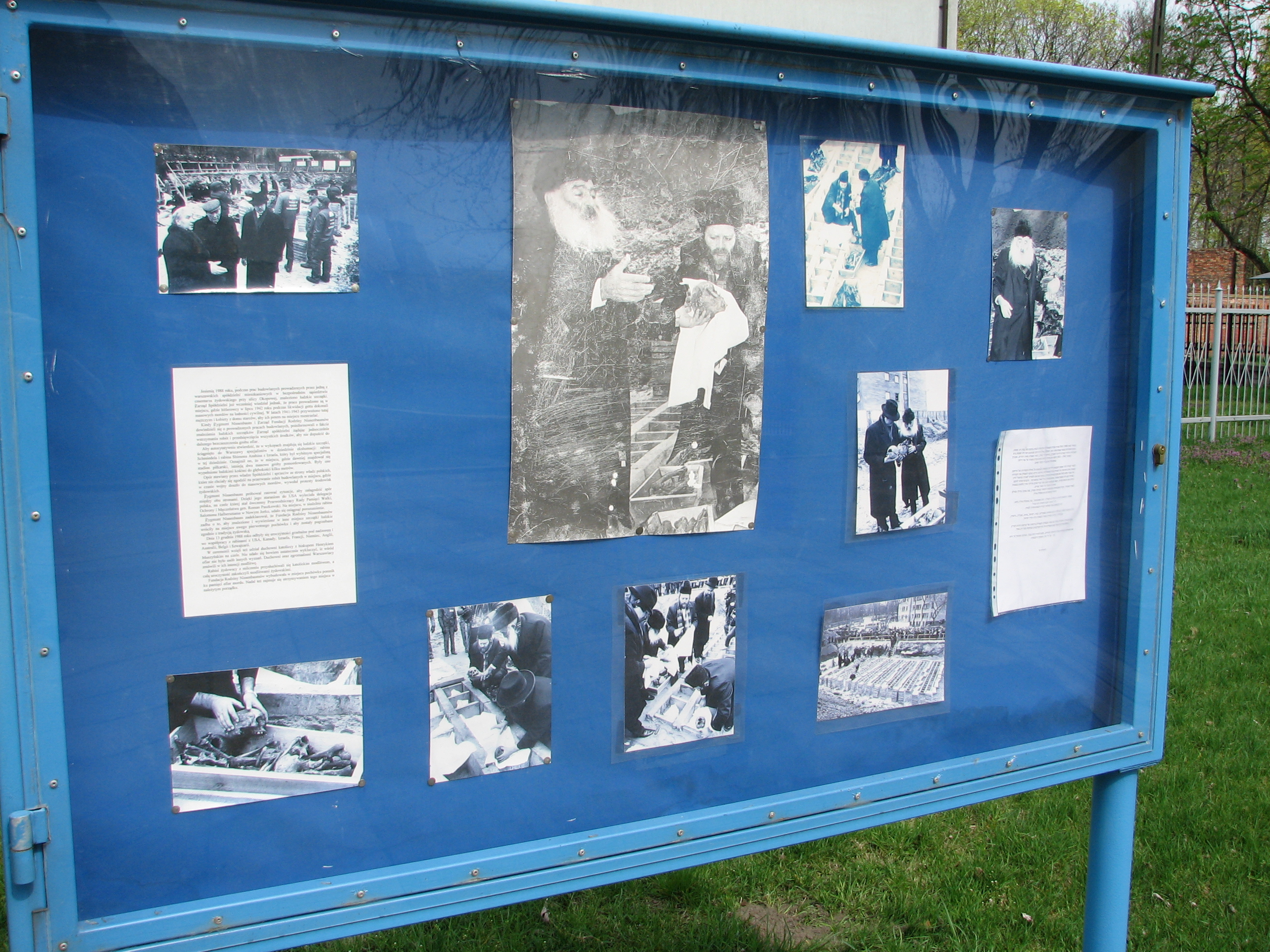 Monument of Jews and Poles Common Martyrdom in Warsaw, Gibalskiego street 21